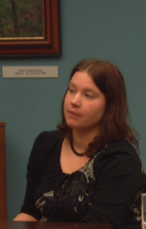 Estonian young writer Diana Leesalu